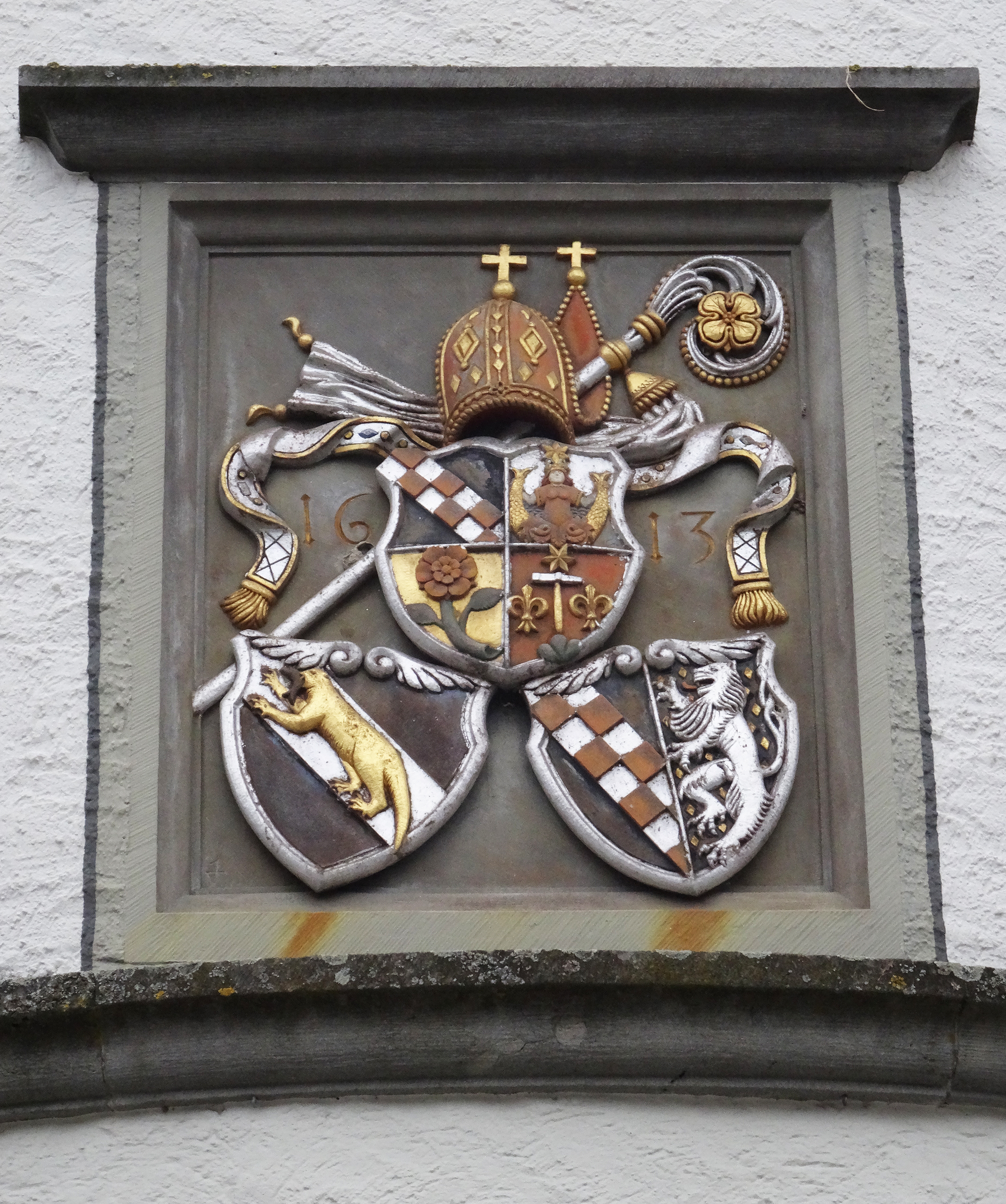 Coats of arms relief on staircase turret of Refektorium of the former Feldbach convent in Steckborn, Switzerland.